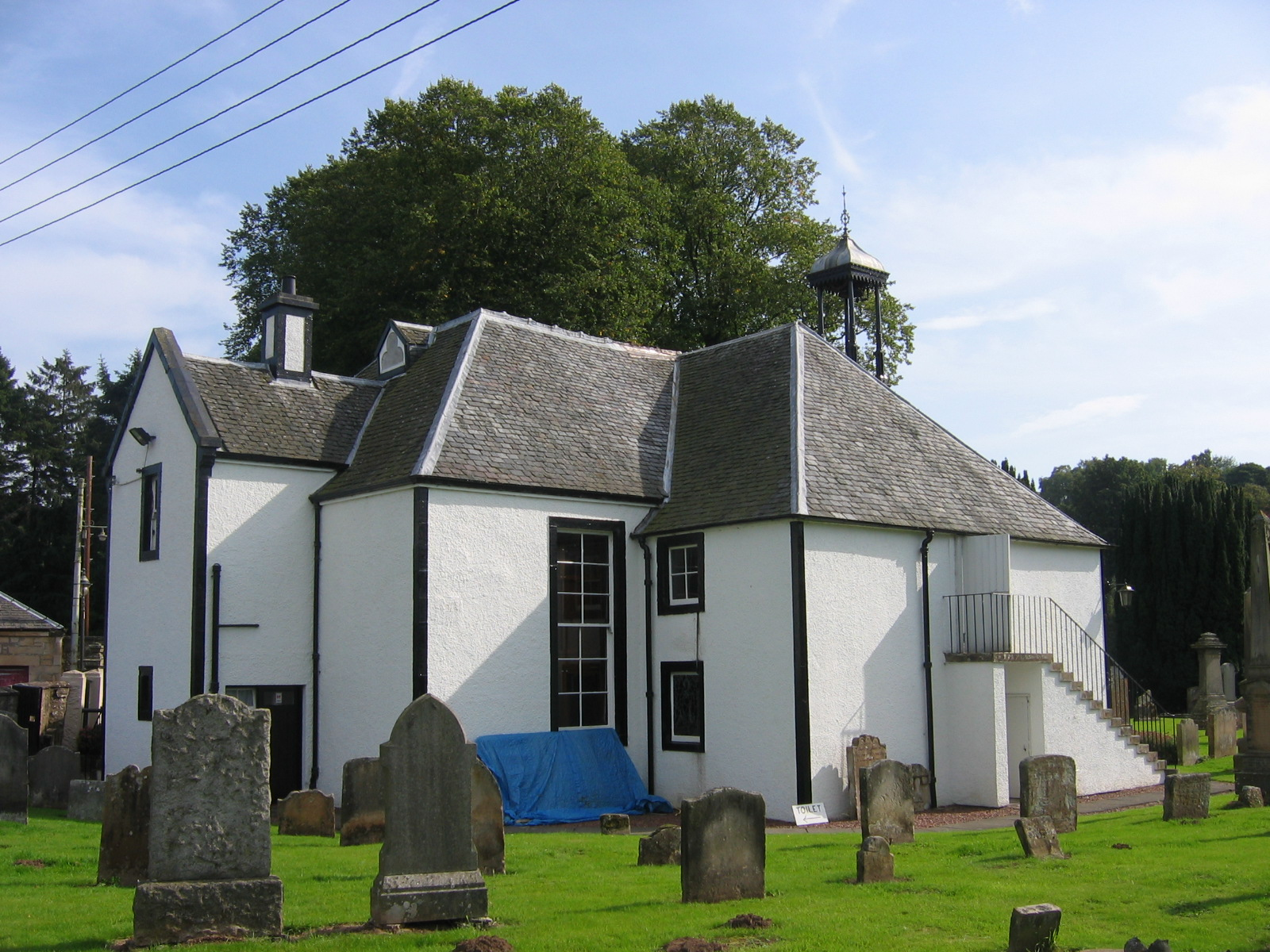 Dalserf Church, Dalserf, South Lanarkshire, Scotland. Rear view.